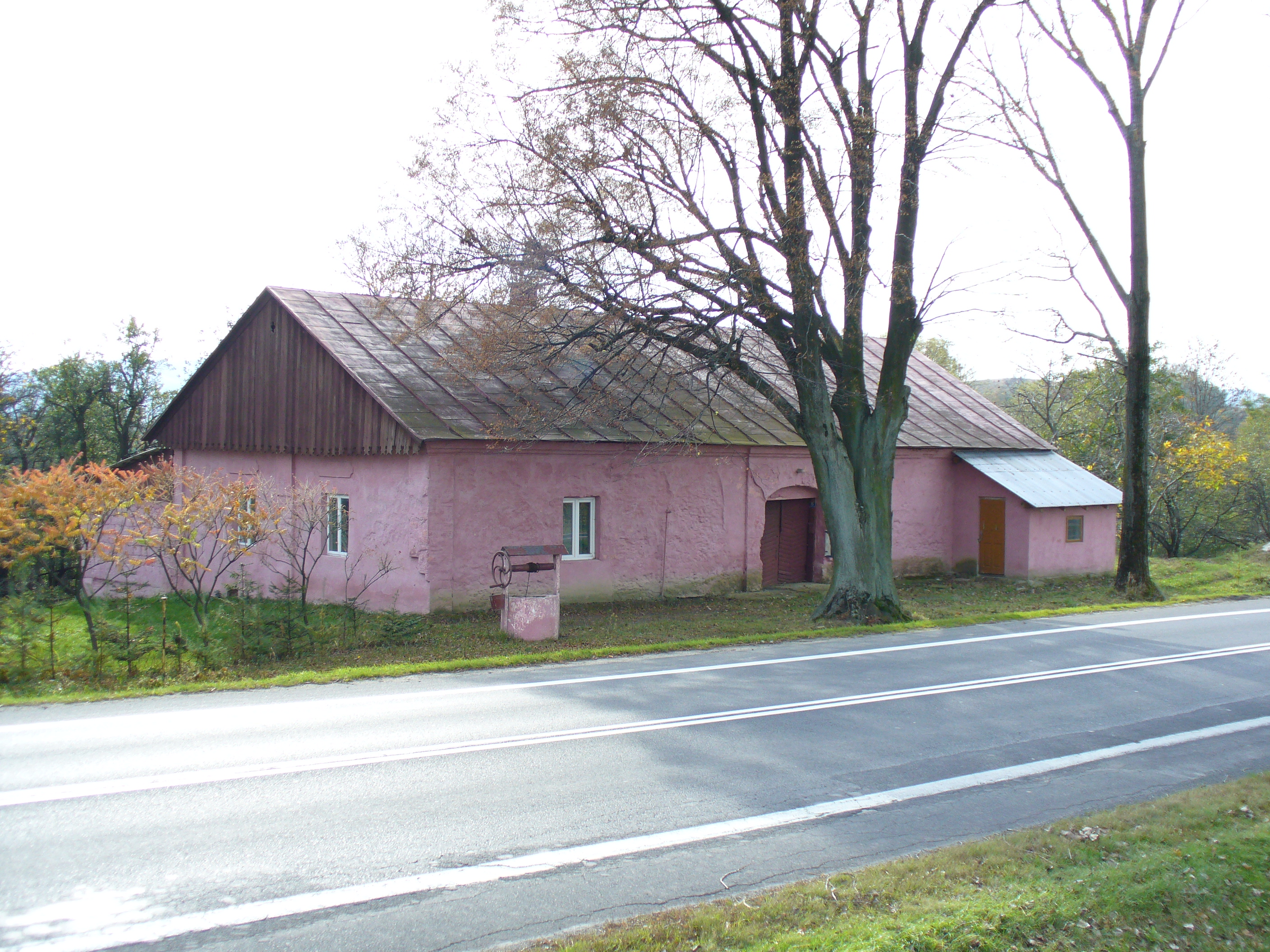 Besko